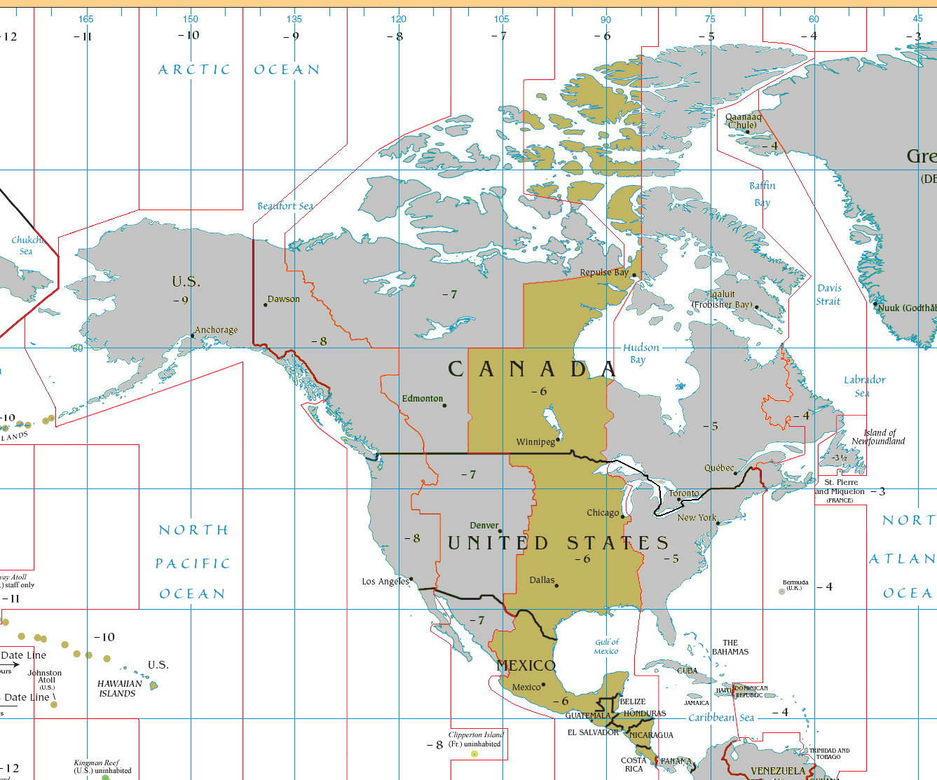 Map of North America with CST highlighted